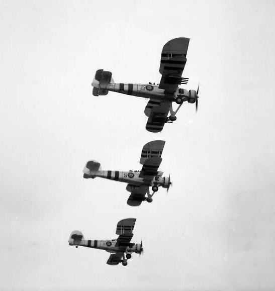 Three rocket-armed Fairey Swordfish of 774 Naval Air Squadron during a training flight from Royal Naval Air Station St. Merryn, Cornwall (UK). 774 NAS was an armament training unit for telegraphist air gunners and observers and was commanded by Lieutenant Commander P. Snow RN. Note the invasion stripes carried for the Normandy landings on the wings and fuselage of the aircraft.